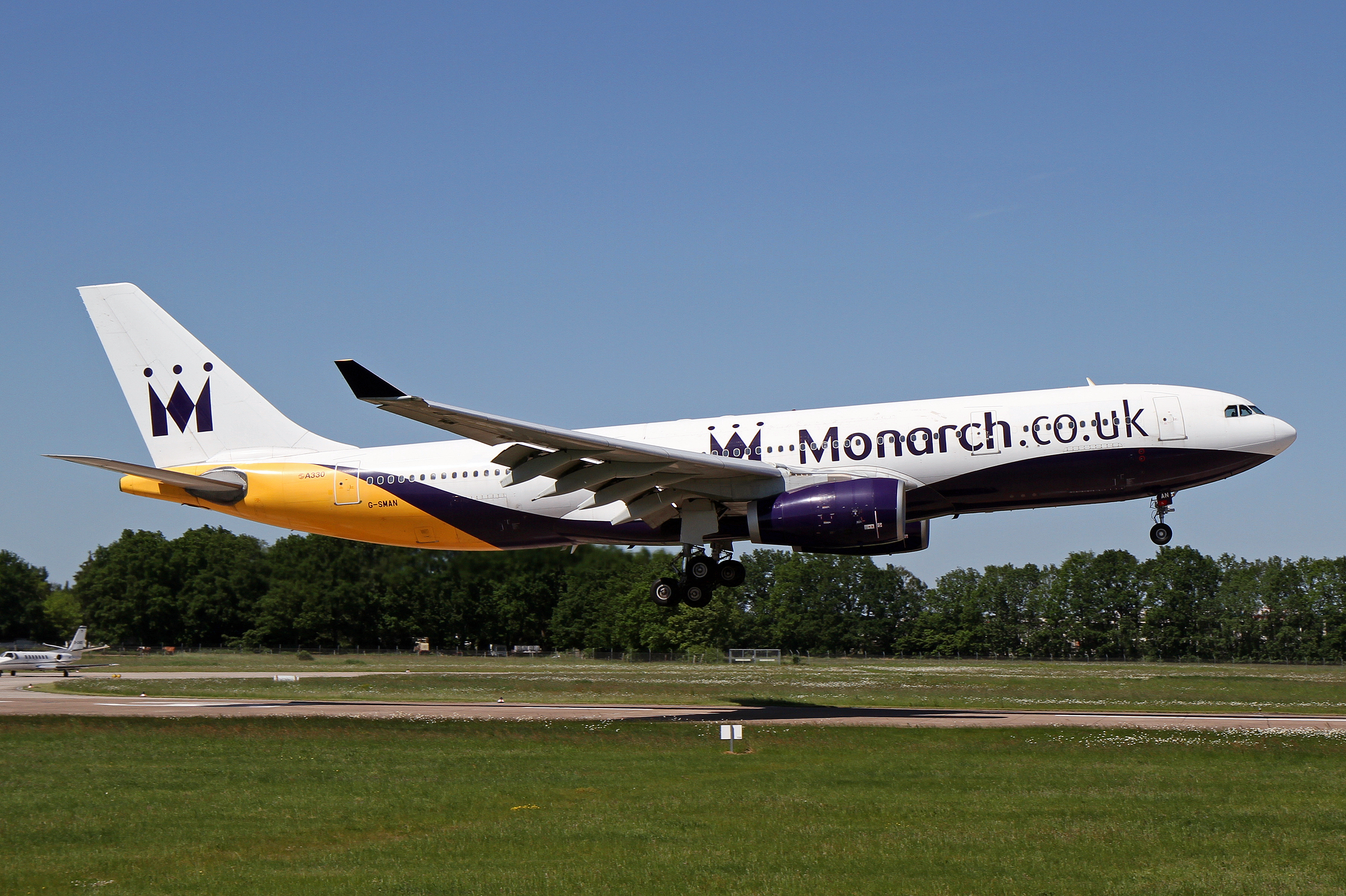 Monarch Airlines Airbus A330-200 (G-SMAN) landing at Hannover Airport